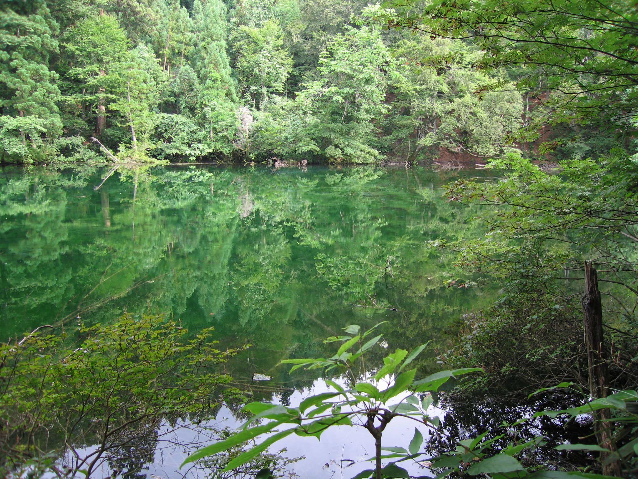 Ryugakubo in Tsunan, Niigata Prefecture, Japan.